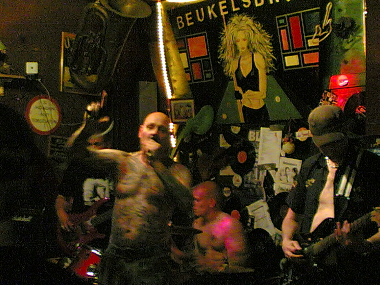 Brigade M in Café de Beukelsbrug on 20 June 2009.